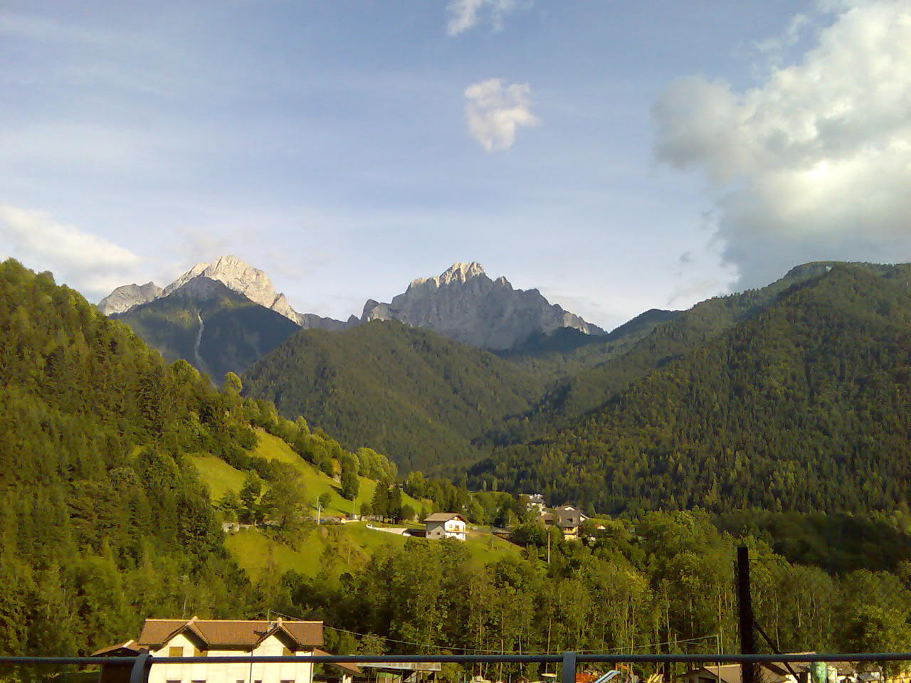 Pizzo Camino (2492 m) to the right, and Monte Sossino (2398 m) to the left, seen from Ronco, a small village near Schilpario, Lombardy.